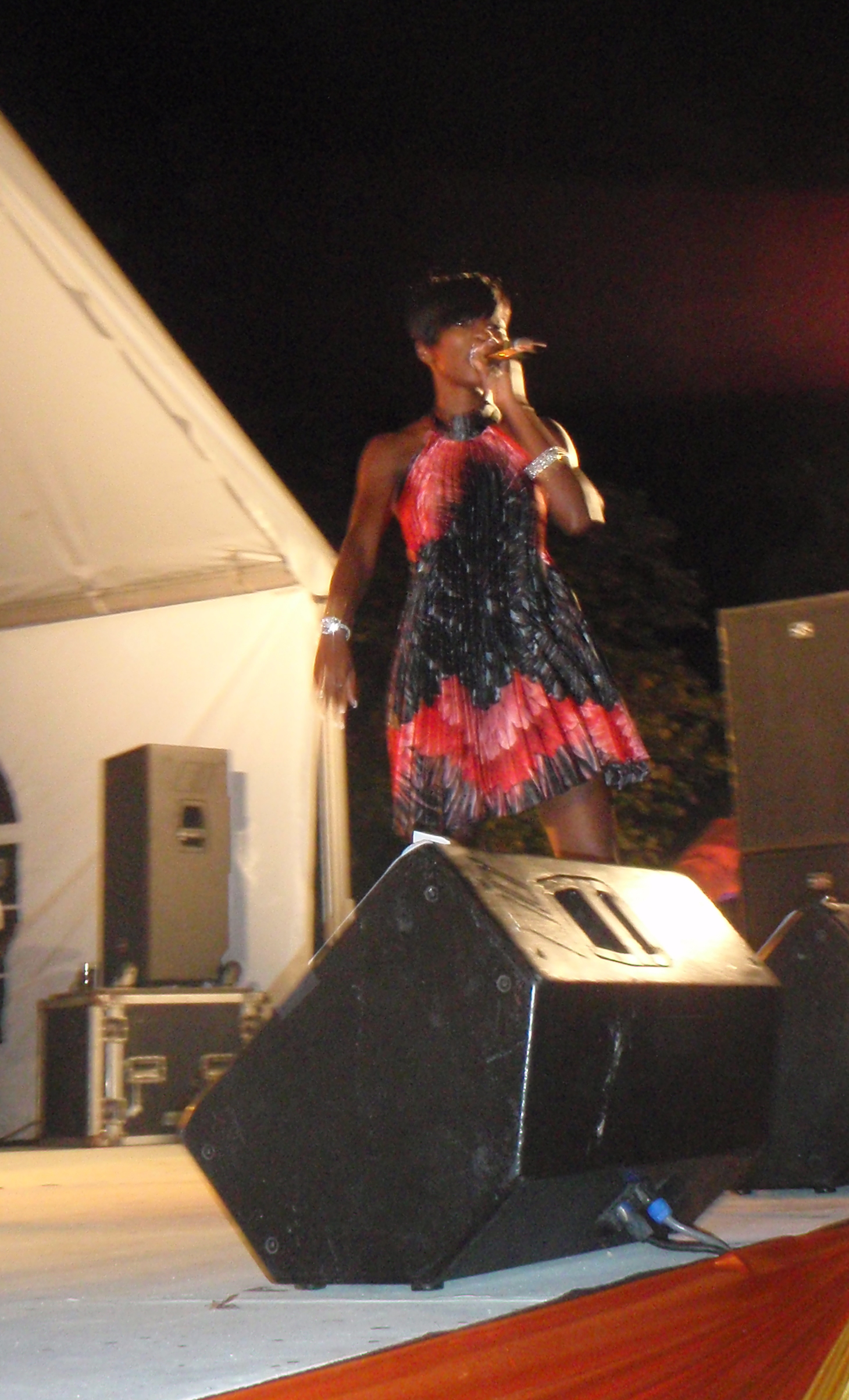 Soca artist Patrice Roberts from Trinidad and Tobago performing at a fete in Barbados.